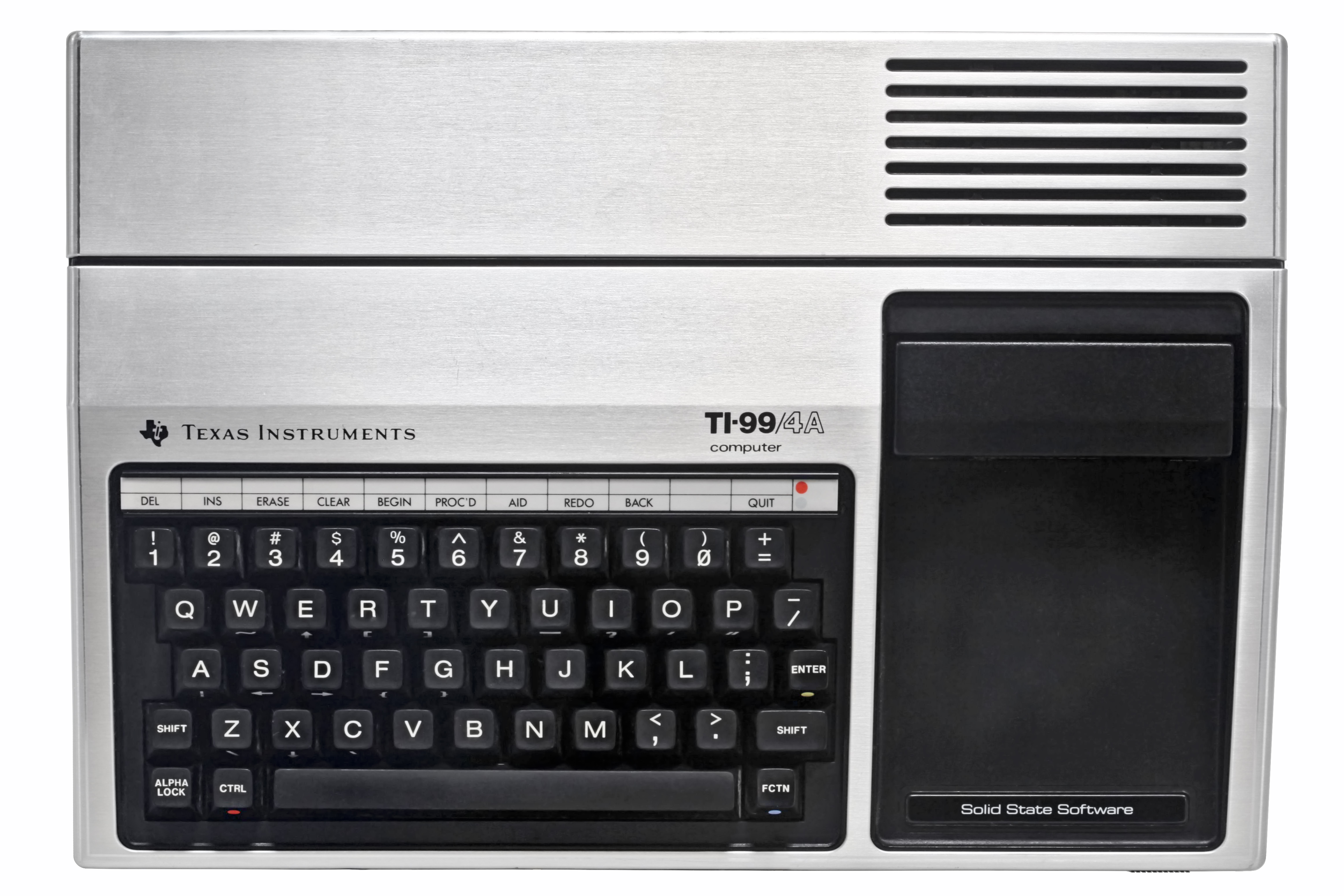 Texas Instruments TI-99 computer. On display at the Musée Bolo, EPFL, Lausanne.